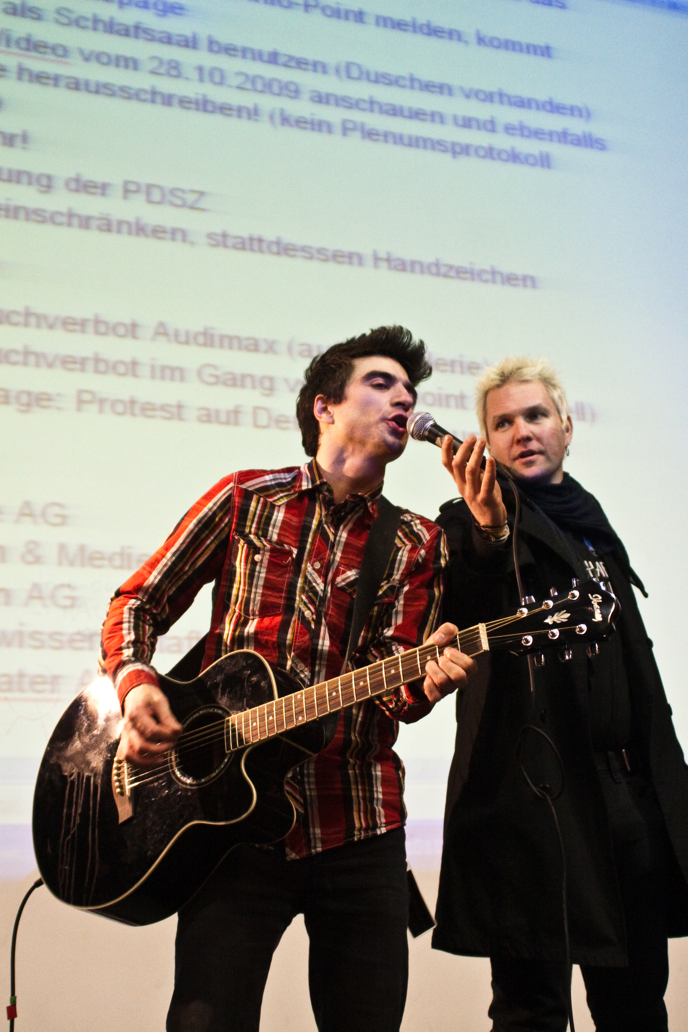 Anti-Flag @ Audimax; University of Vienna; studentsprotests 2009